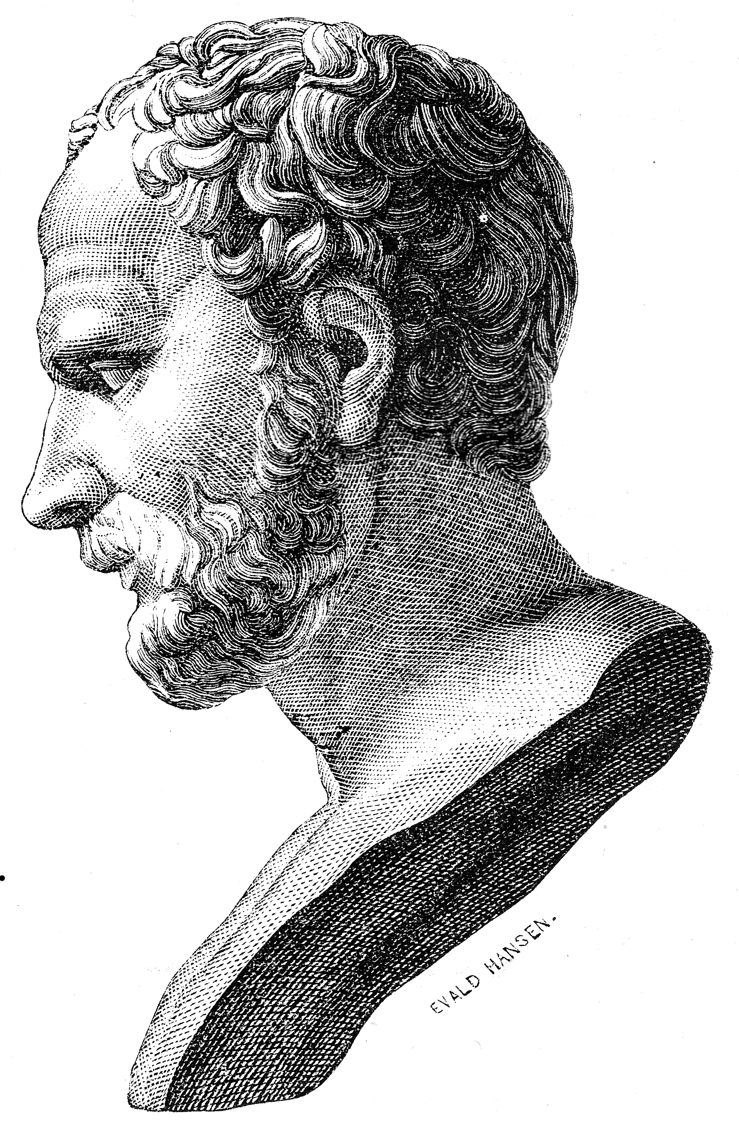 Illustration from Illustrerad verldshistoria by E. Wallis, volume I. "Demosthenes."